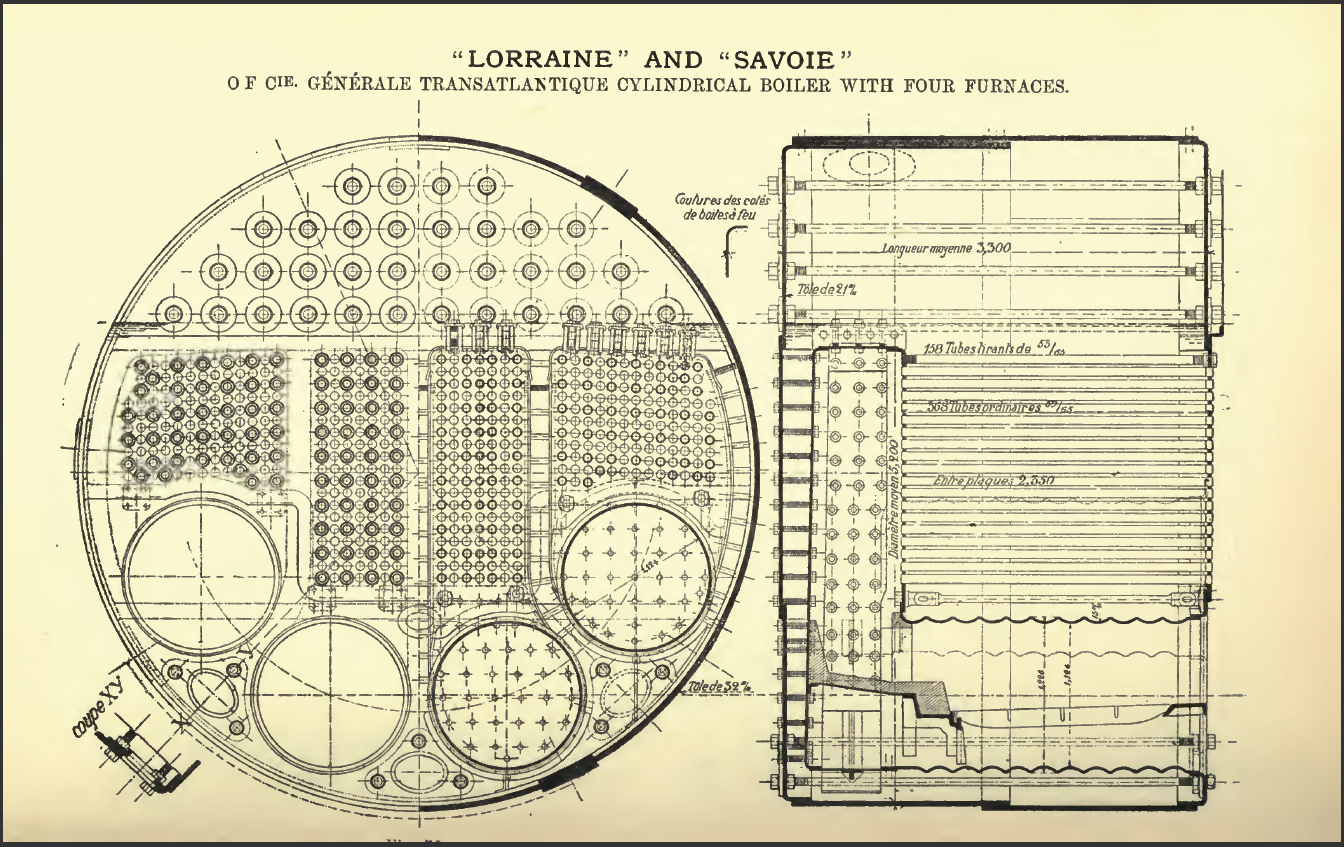 Fig. 70 & 70a Lorraine and Savoie of cie. Générale Transatlantique cylindrical boiler with four furnaces. – Beautiful cross and longitudinal section of a large Scotch marine boiler